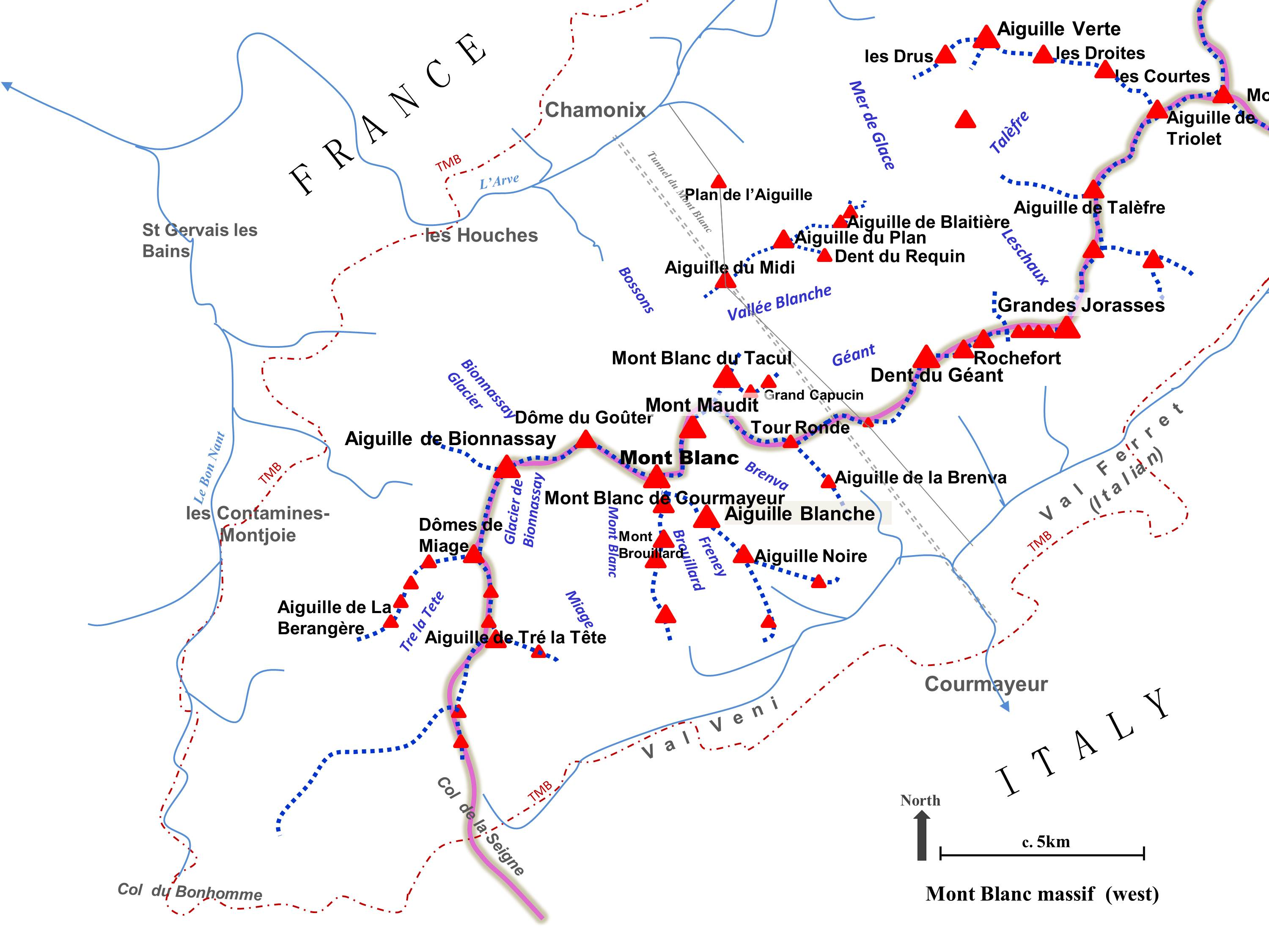 Main summits and ridges of the western half of the Mont Blanc massif. The general position and direction of flow of some major glaciers and main rivers, plus the approximate route of the Tour du Mont Blanc (TMB), the Tunnel du Mont Blanc and the aerial cableway between Chamonix and Courmayeur, are also indicated. Boundary between France, Italy and Switzerland is shown in grey.